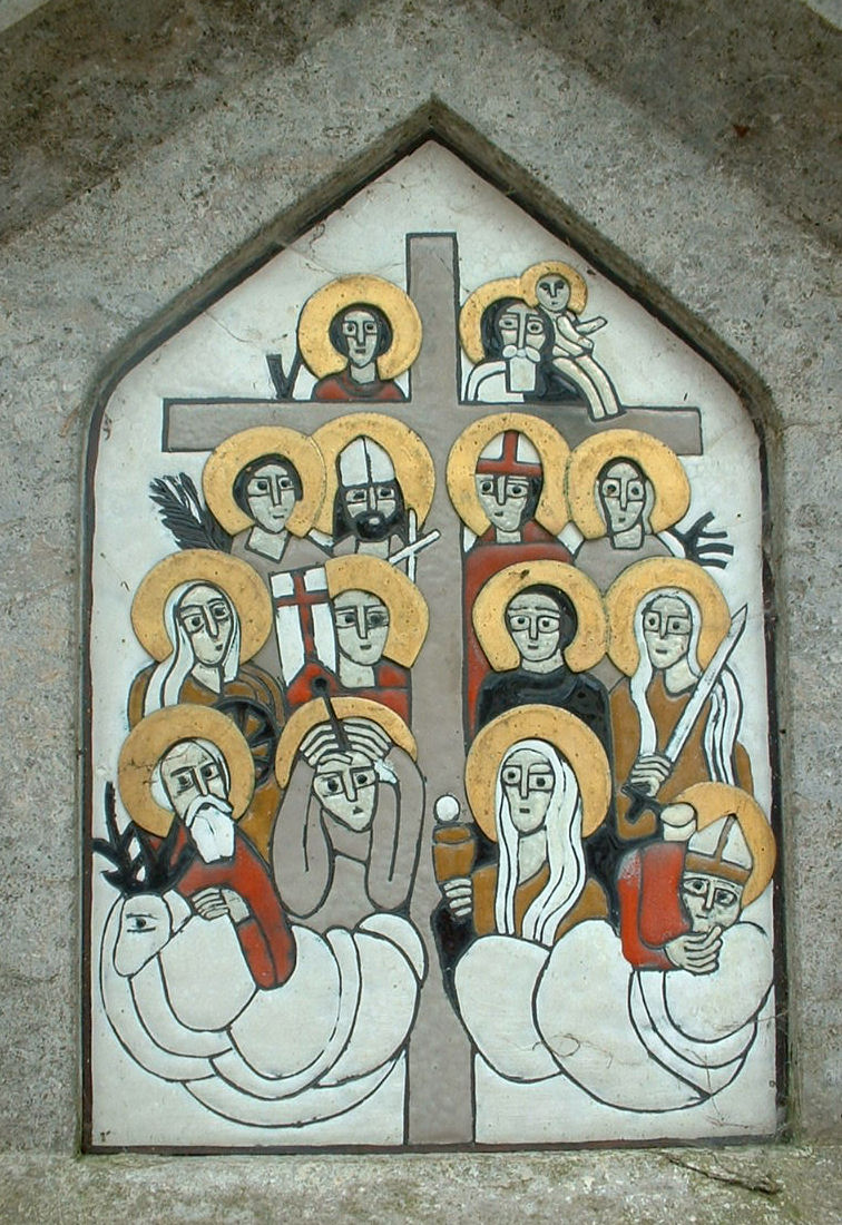 The 14 Saints ("Vierzehn Nothelfer" - catholic saints) with attributes